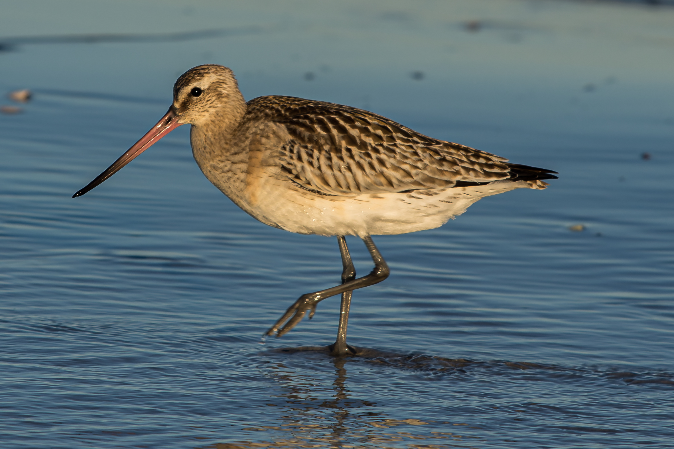 Bar-tailed Godwit, non-breeding plumage, Kiel, Germany